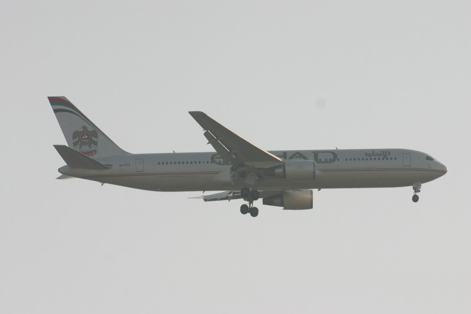 At Delhi Indira Gandhi International Airport